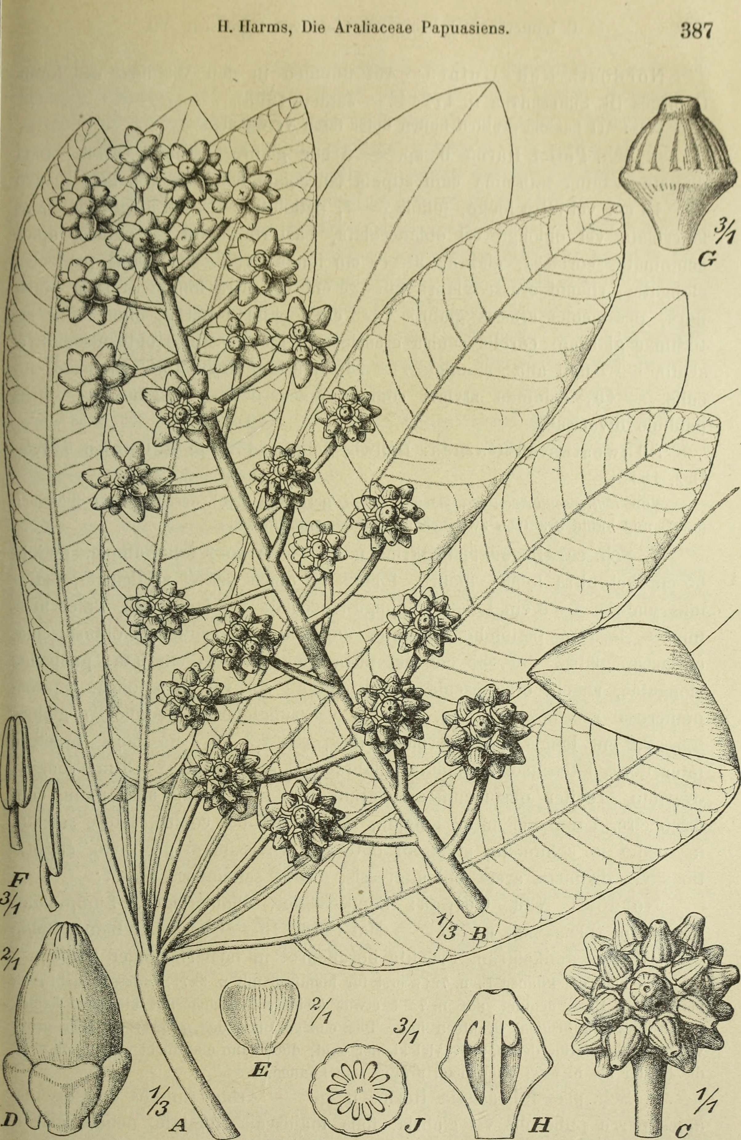 Title: Botanische Jahrbücher für Systematik, Pflanzengeschichte und Pflanzengeographie Year: 1881 (1880s) Authors: Engler, Adolf, 1844-1930 Subjects: Botany; Plantengeografie; Paleobotanie; Taxonomie; Pflanzen Publisher: Stuttgart : Schweizerbart Text Appearing Before Image: ' Text Appearing After Image: Fig. 2, Schefflera megalantha Harms. A Blatt, B Blütenstand, C Köpfchen, D Blüte mit Brakteen, E Braktee, F Staubblätter, G Pistill, H Fruchtknoten im Längsschnitt, J im Querschnitt. 25*